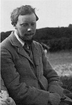 Clive Bell ca. 1910-3, original to right of Virginia Woolf